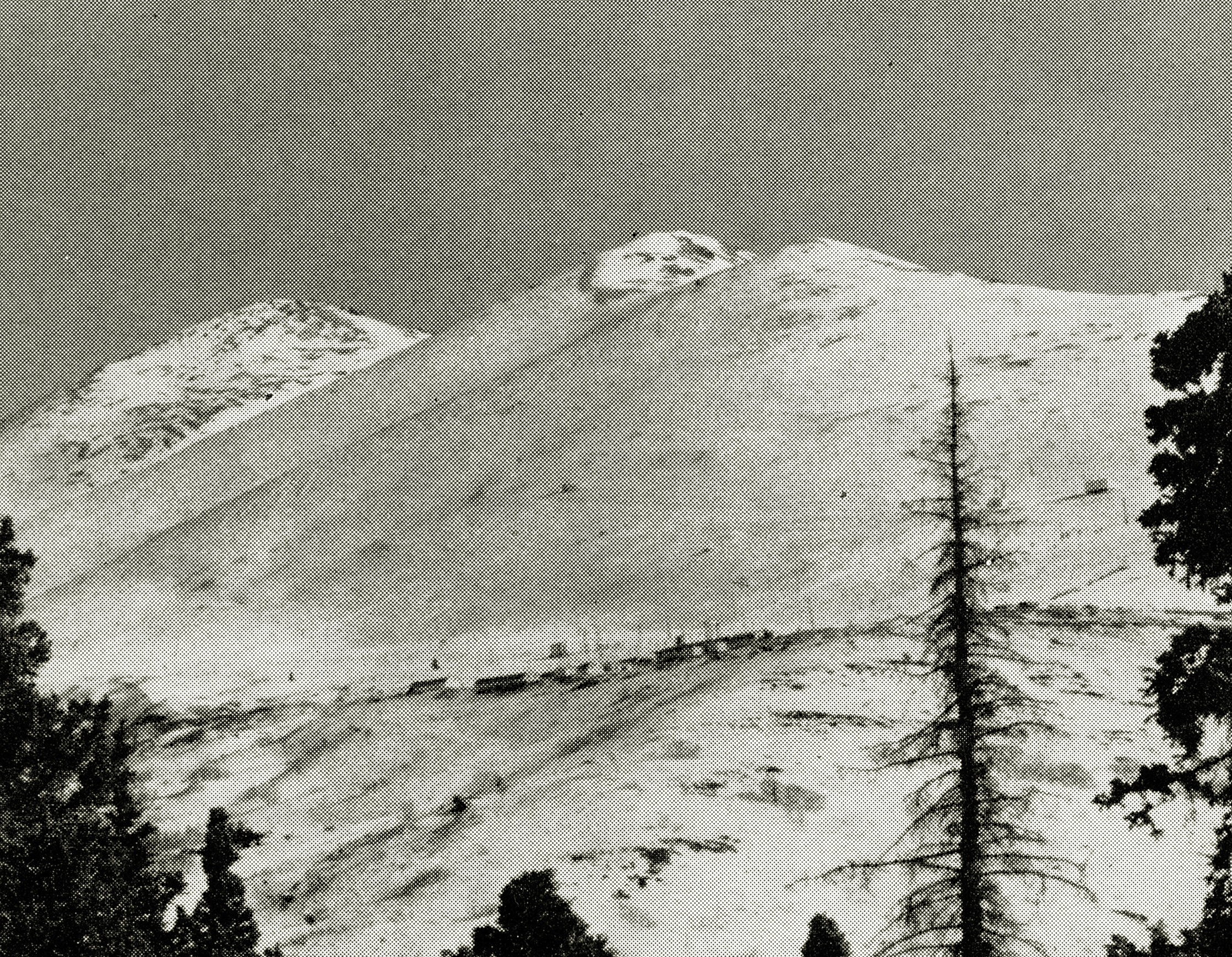 Verso caption: "Winter beauty surrounds the Arctic Valley near Anchorage, site of ski expeditions". Early 1950s-era view of the Alpenglow at Arctic Valley ski area, located in the Chugach Mountains near Fort Richardson in Anchorage, Alaska.